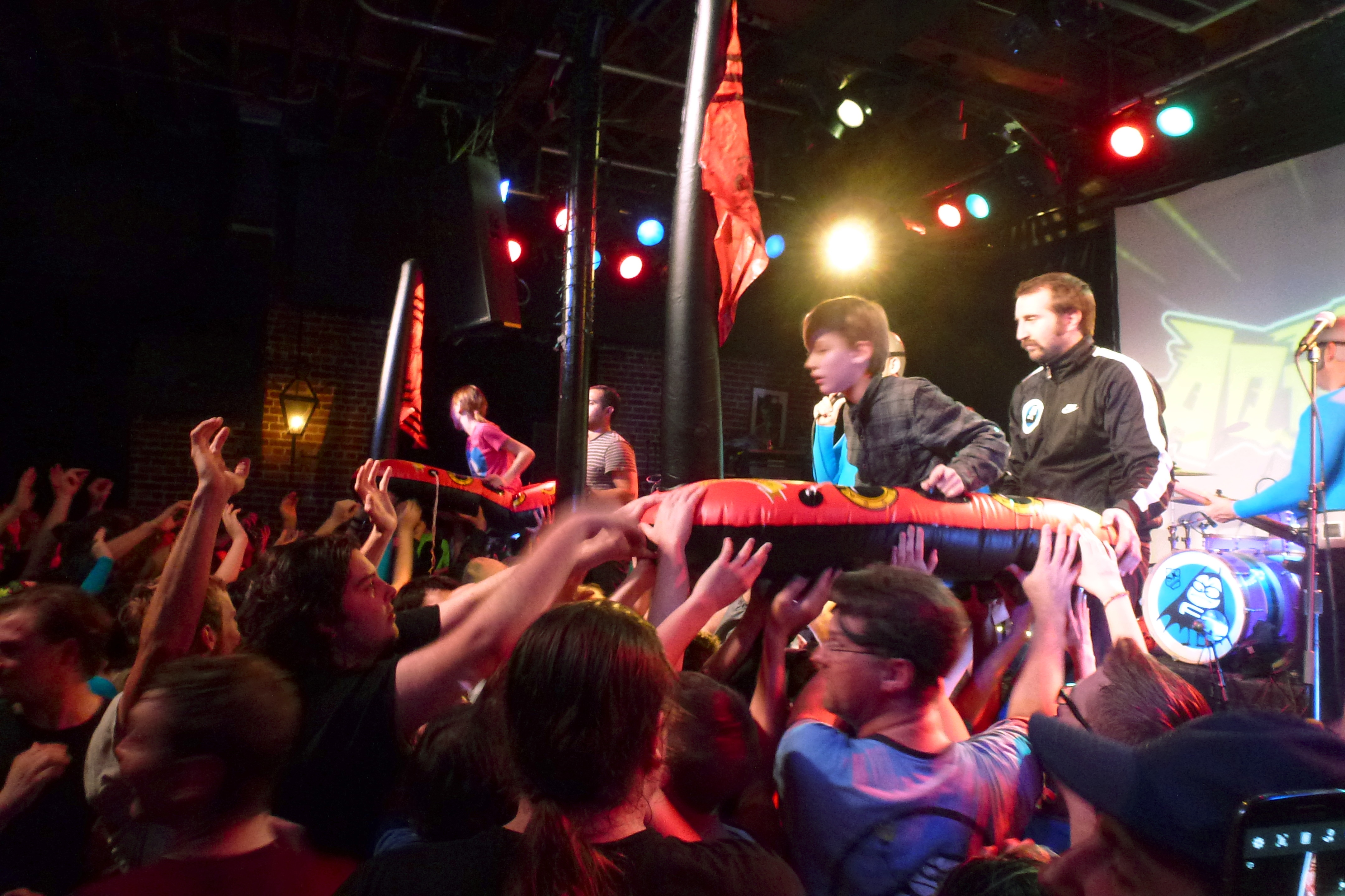 The Aquabats performing a show in San Francisco in 2012. The photo depicts a concert activity known as "Pool Floatie Races", where children from the audience race across the venue on pool floatation devices by way of crowd surfing.